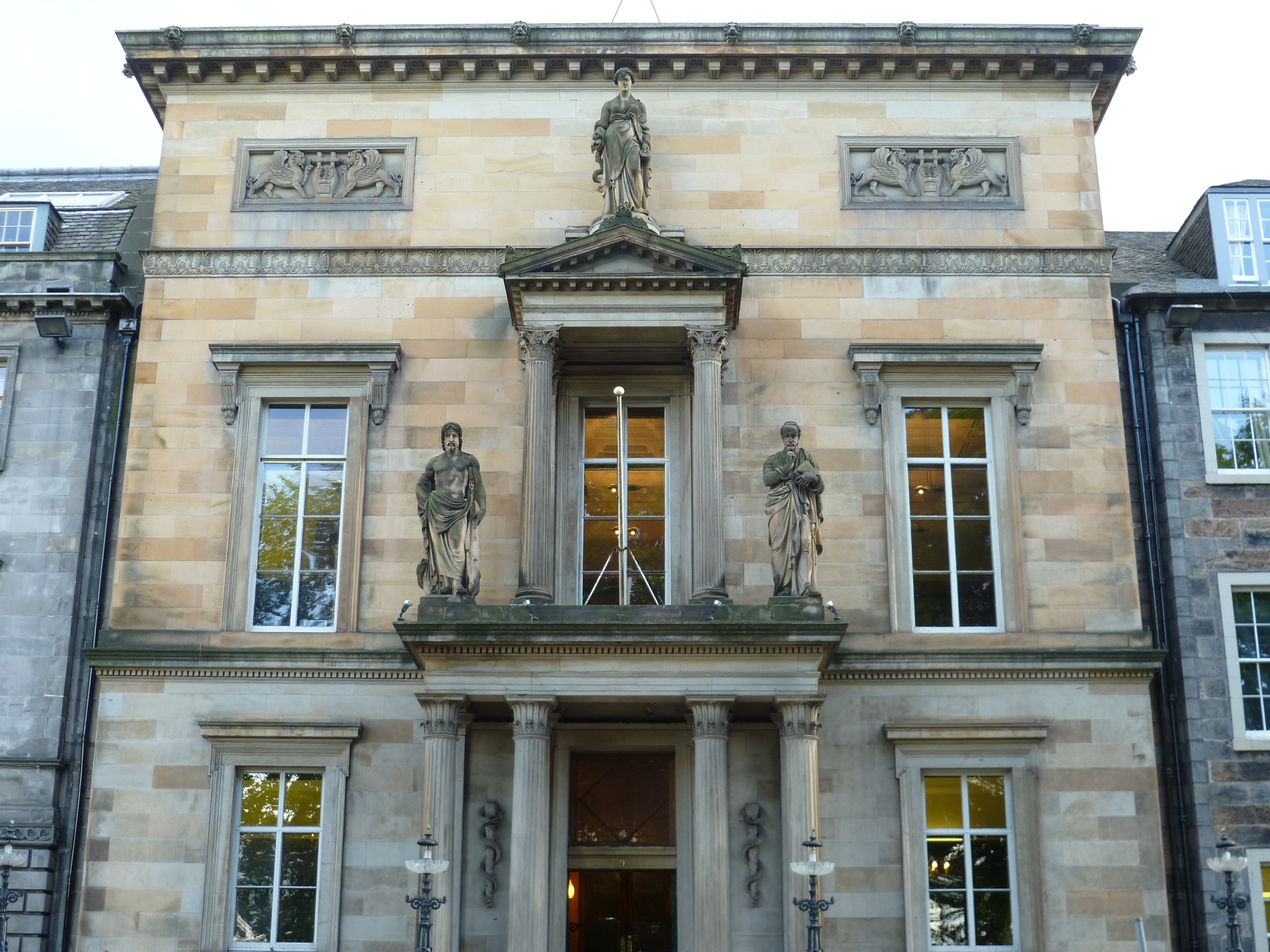 The Royal College of Physicians' building, 9 Queen Street, Edinburgh, erected in 1844, was designed by Thomas Hamilton, architect of the Royal High School on the Calton Hill.